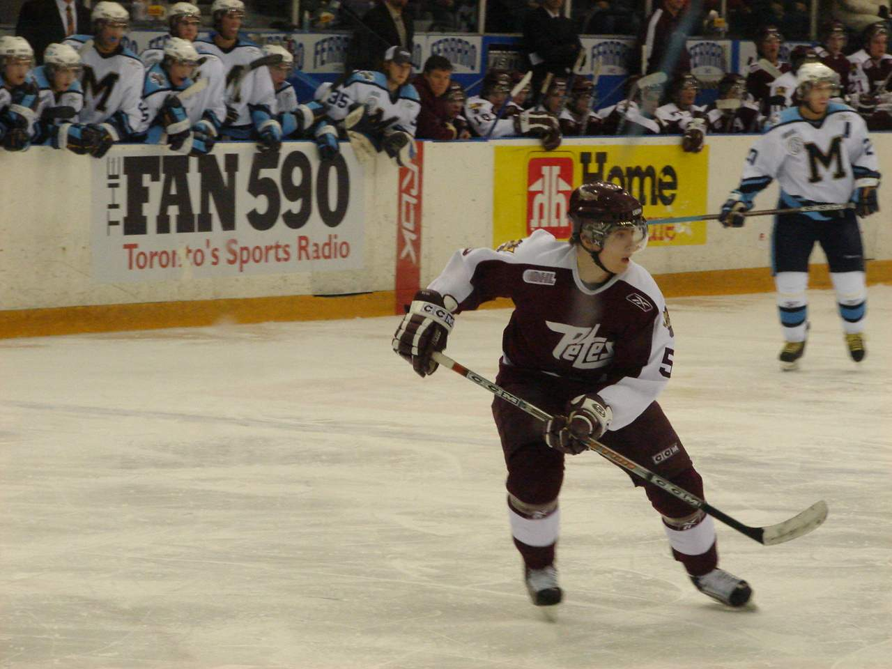 Arturs Kulda, #5, January 2007 with Peterborough Petes (OHL) in game against Toronto St. Michael's Majors